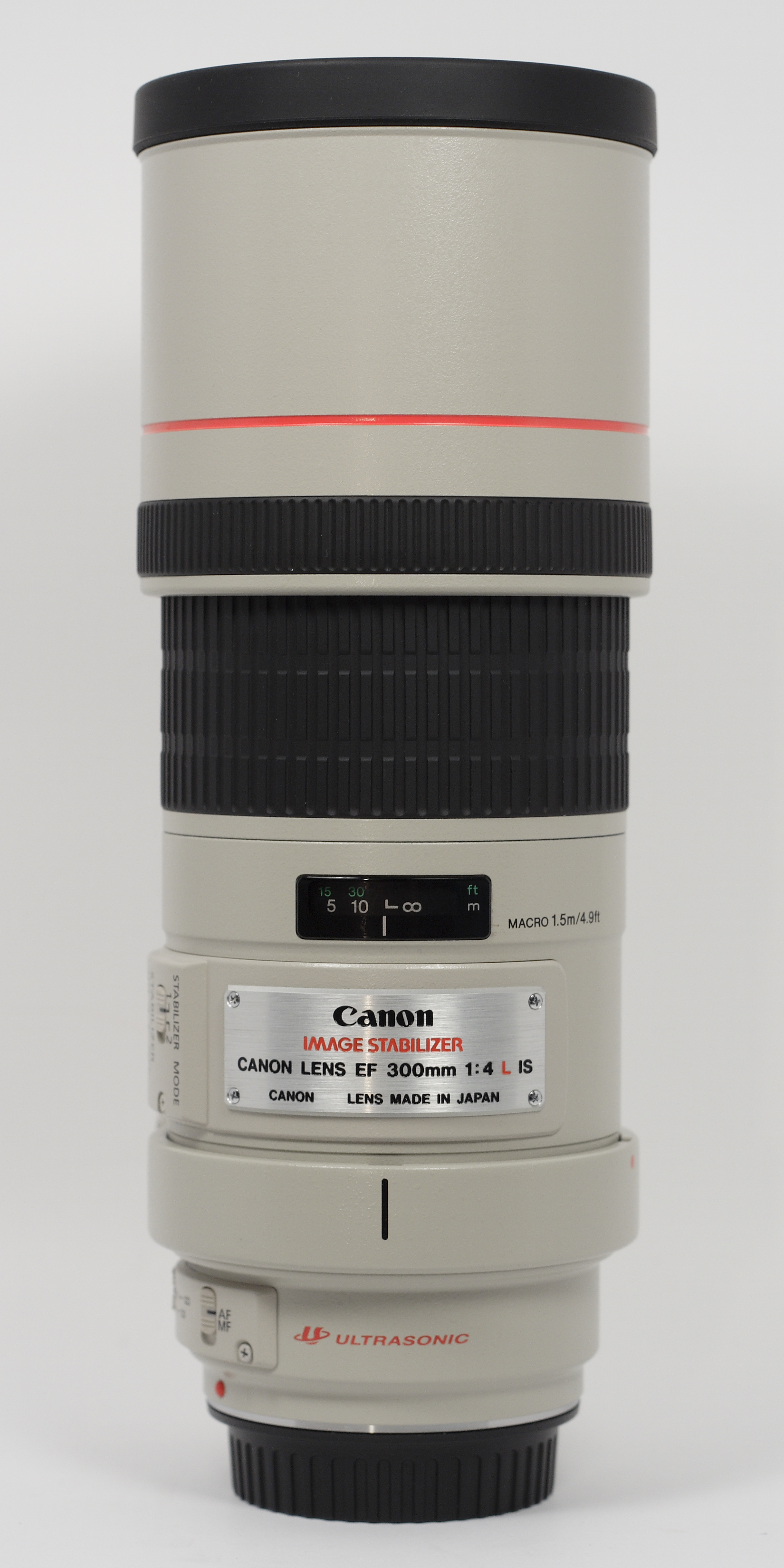 Side shot of the Canon EF 300mm f4L IS USM